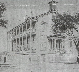 "Early photograph of the Straight University Main building", New Orleans.